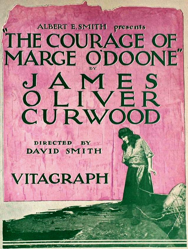 Ad for the American film The Courage of Marge O'Doone (1920) with Pauline Starke, on page 4087 of the May 15, 1920 Motion Picture News.